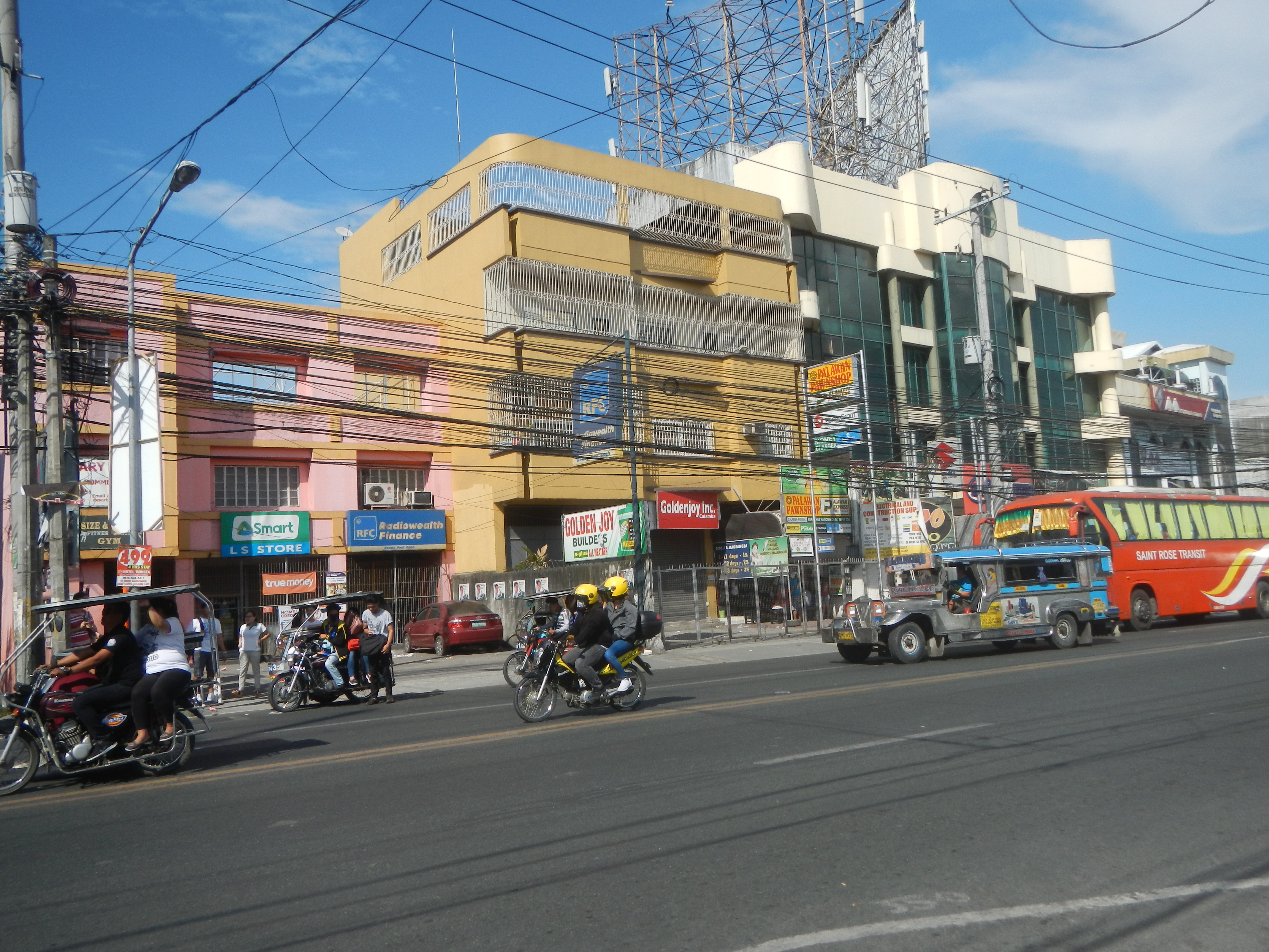 AMA Computer University AMA Computer College Calamba Campus Social Security System (Philippines) Social Security System Calamba, Laguna Branch National Highway (Calamba Poblacion-Mayapa) of Maharlika Highway (Calamba City section) Pan-Philippine Highway; in Barangays Parian, Calamba, Parian 14°12'53"N 121°8'55"E Lawa 14°12'20"N 121°8'39"E Calamba, Laguna from Calamba Poblacion (Note: Judge Florentino Floro, the owner, to repeat, Donor Florentino Floro of all these photos hereby donate gratuitously, freely and unconditionally Judge Floro all these photos to and for Wikimedia Commons, exclusively, for public use of the public domain, and again without any condition whatsoever).